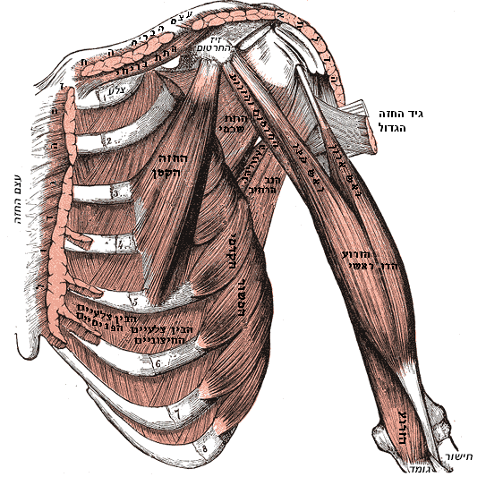 שרירי בית החזה והזרוע במבט קדמי, שריר החזה הגדול הוסר